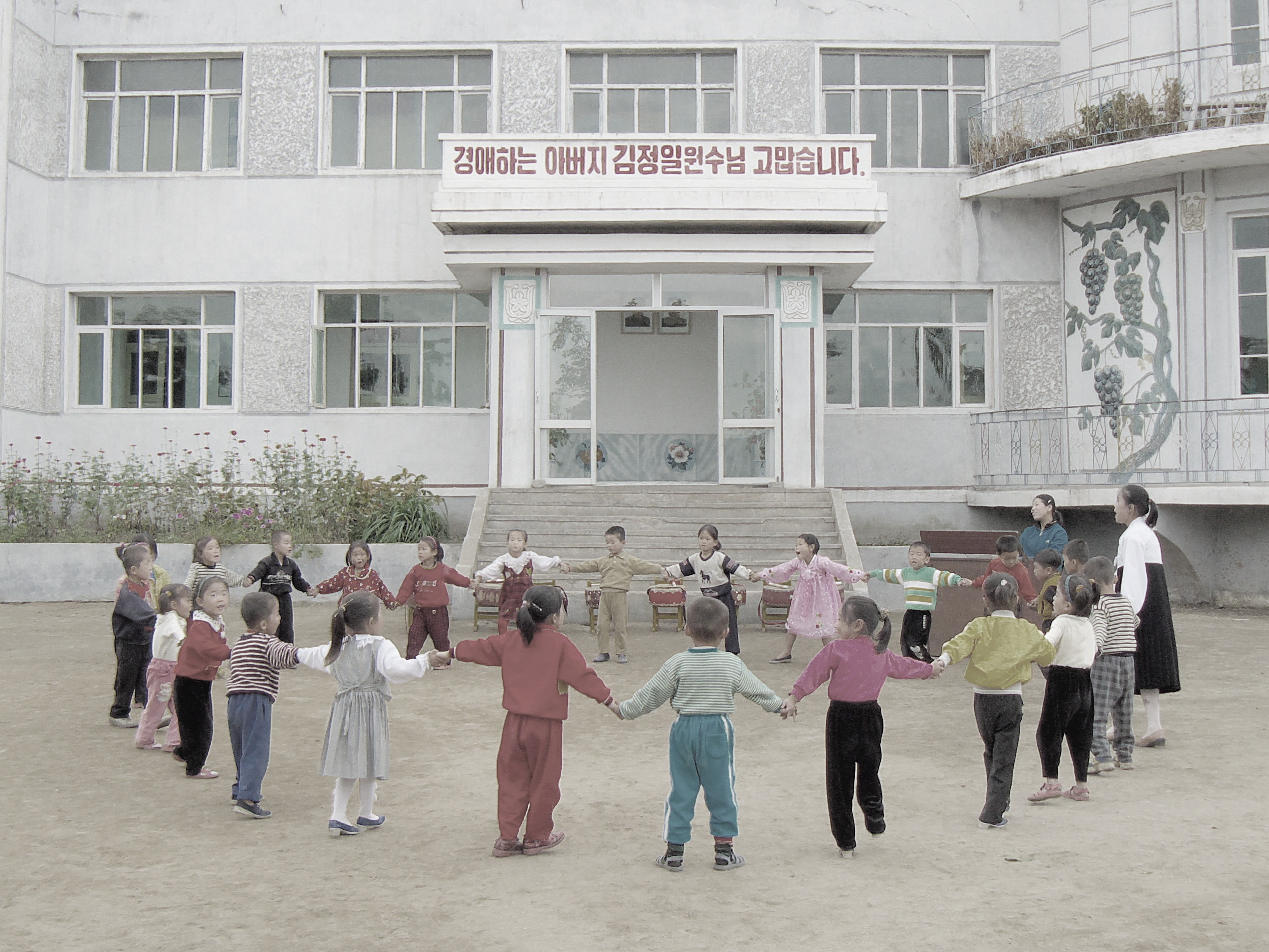 Situated on the outskirts of Wonsan, the Chonsam Cooperative Farm is possibly the only place in the country where foreign visitors are allowed into a working farm. While it is indeed a working farm, it does feel a little bit contrived. Throughout the duration of our visit, which lasted well over an hour, these children were singing, dancing and playing drums endlessly. Was it staged? The drums routine in particular, seemed more like a well-rehearsed performance.